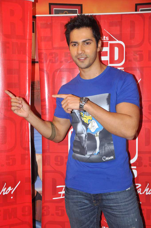 Varun Dhawan with 'Student Of The Year' team at Red FM 93.5 & Radio Mirchi 98.3 FM